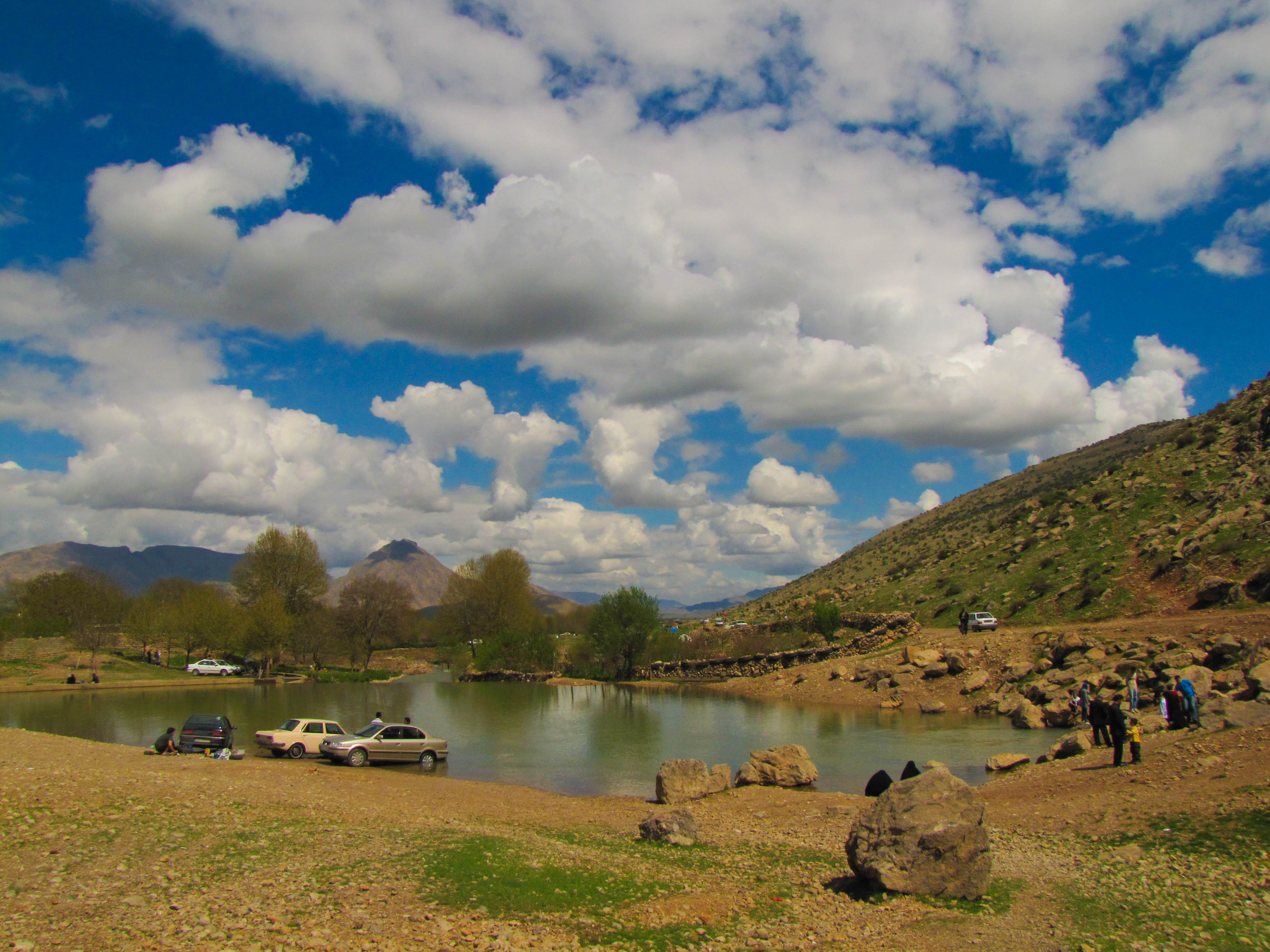 nojubaran lake in kermanshah province.